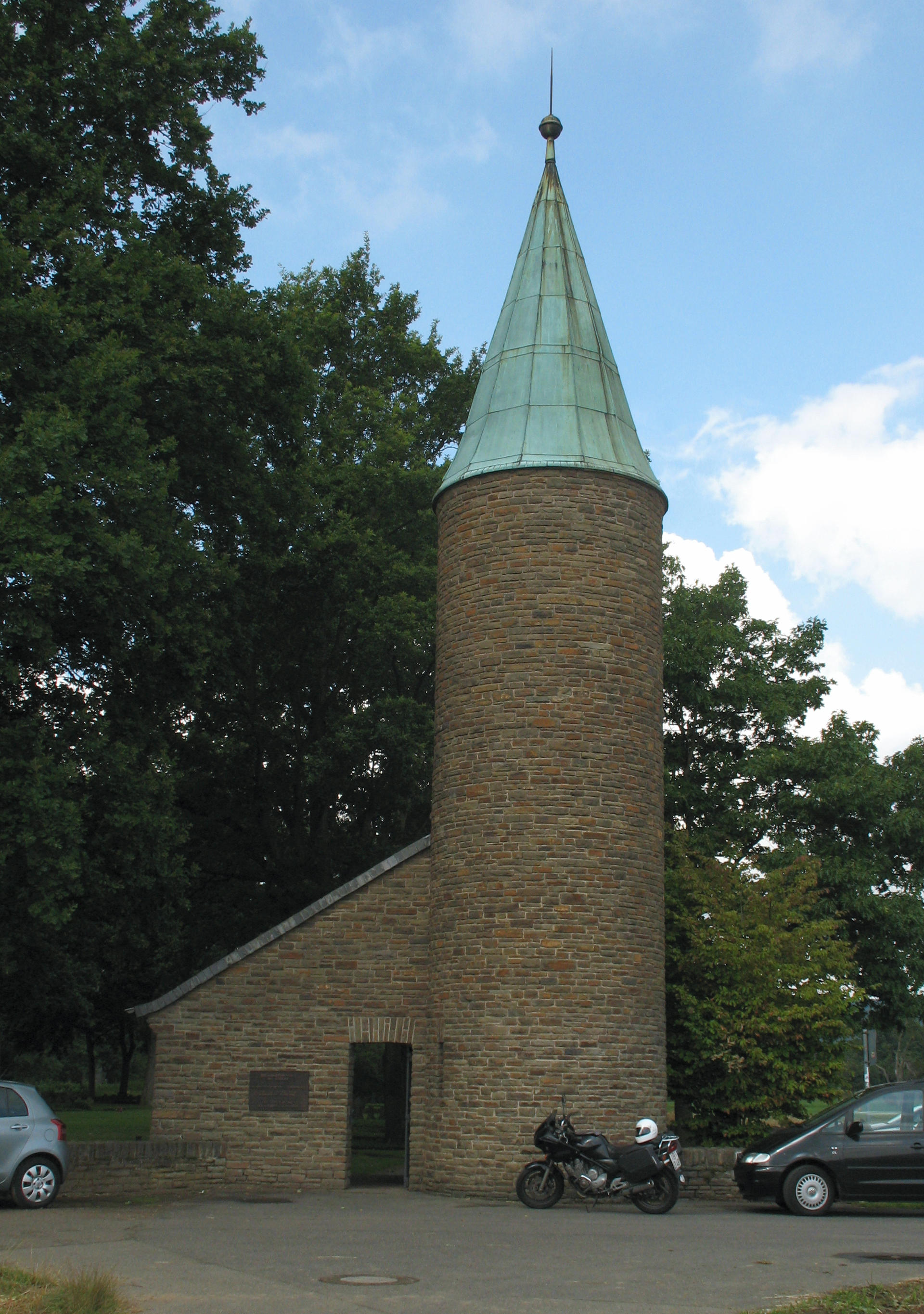 Bad Bodendorf War Cemetery in Sinzig in Rhineland-Palatinate, Germany